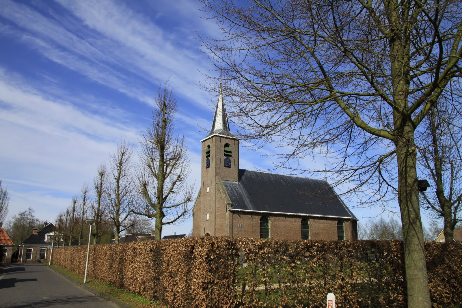 Church of Sumar